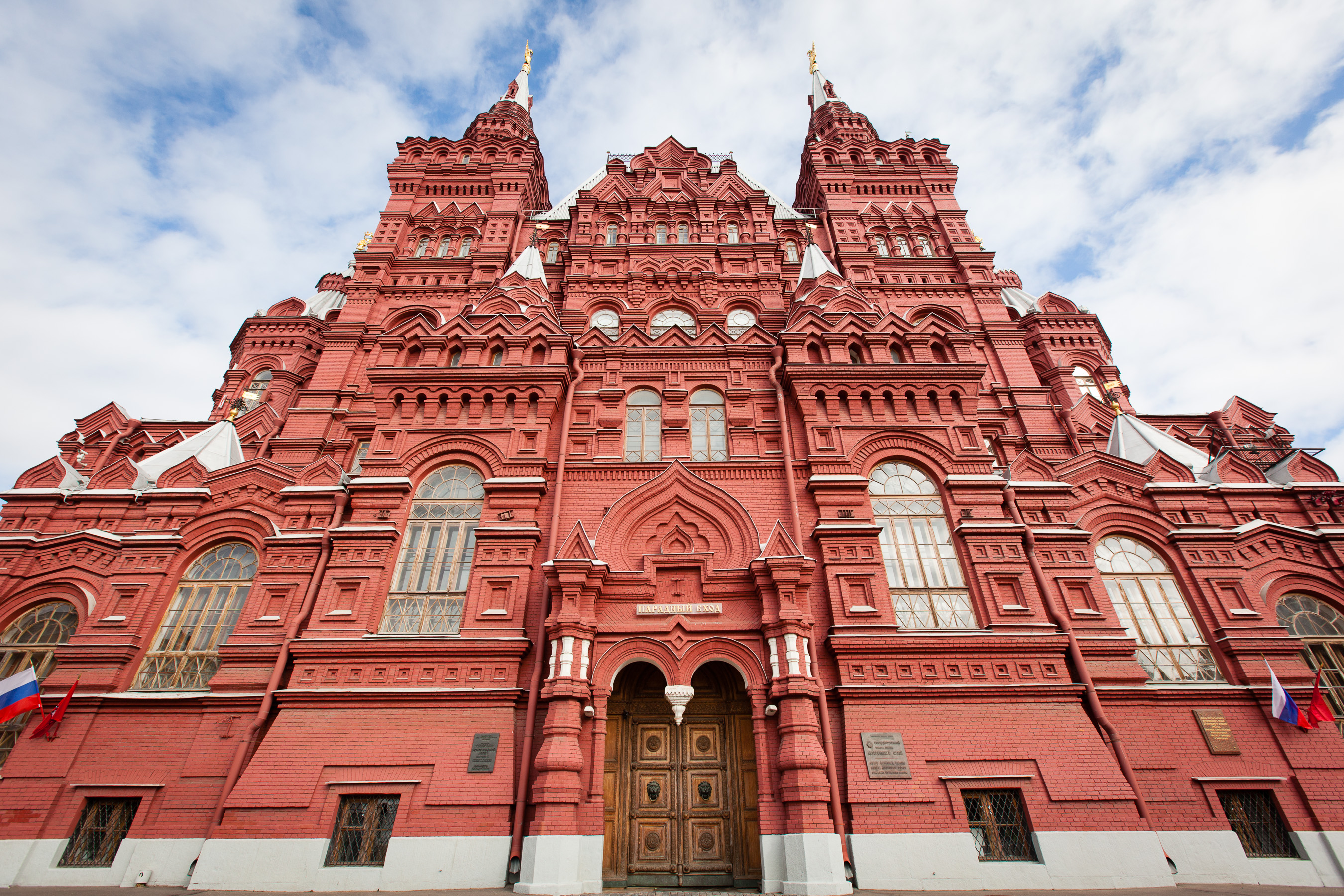 By far my most favorite building in all of Russia. ...and I didn't even have a chance to go inside.